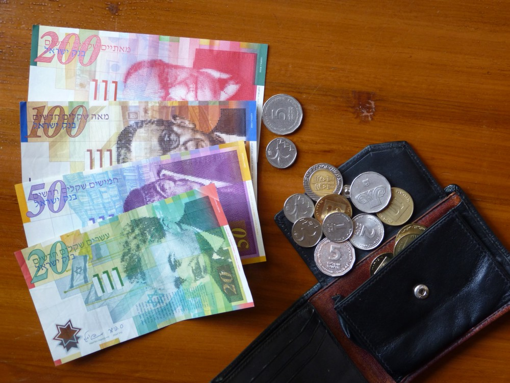 Israeli money